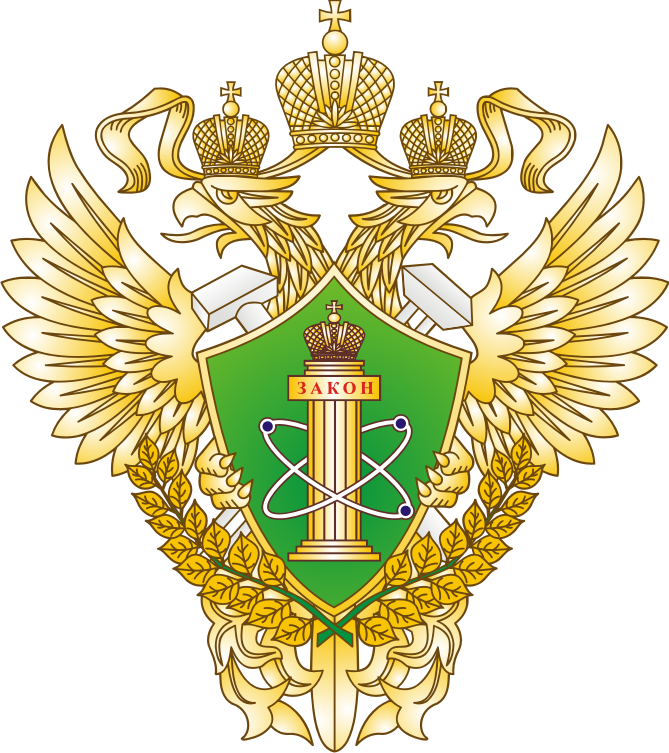 Emblem of Federal service on ecological, technological and nuclear supervision